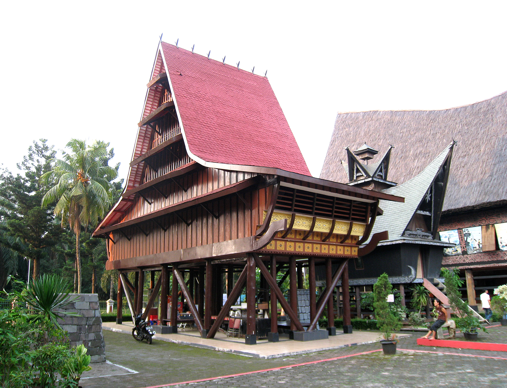 The Nias traditional house at North Sumatran pavilion, Taman Mini Indonesia Indah, Jakarta.